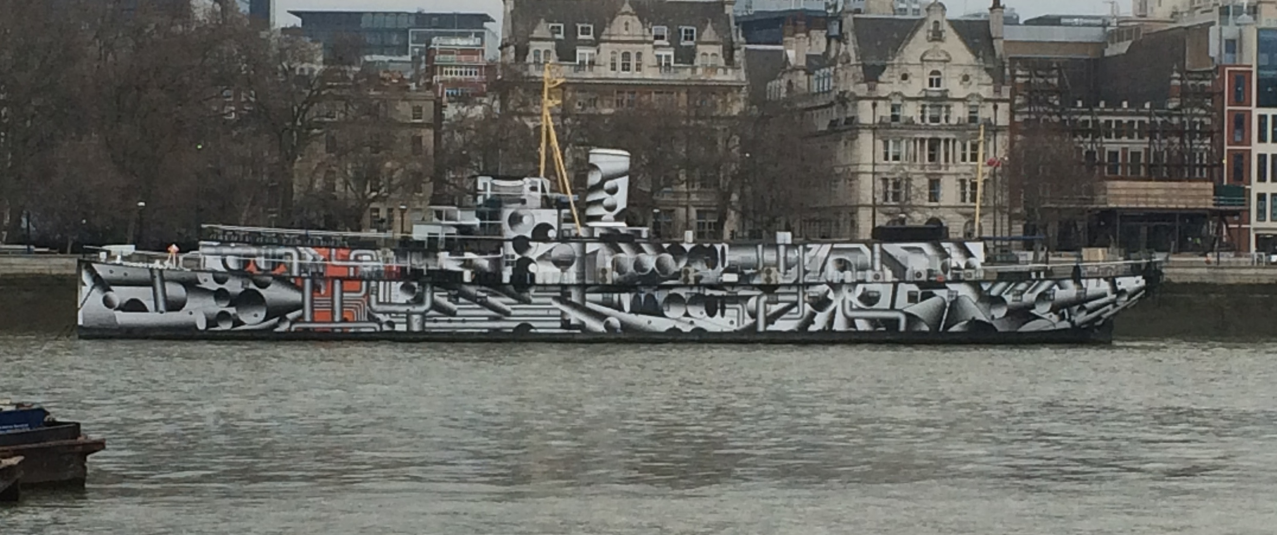 HMS President (1918) painted to commemorate dazzle camouflage by Tobias Rehberger. Artwork may be copyright but has 'freedom of panorama' in UK#